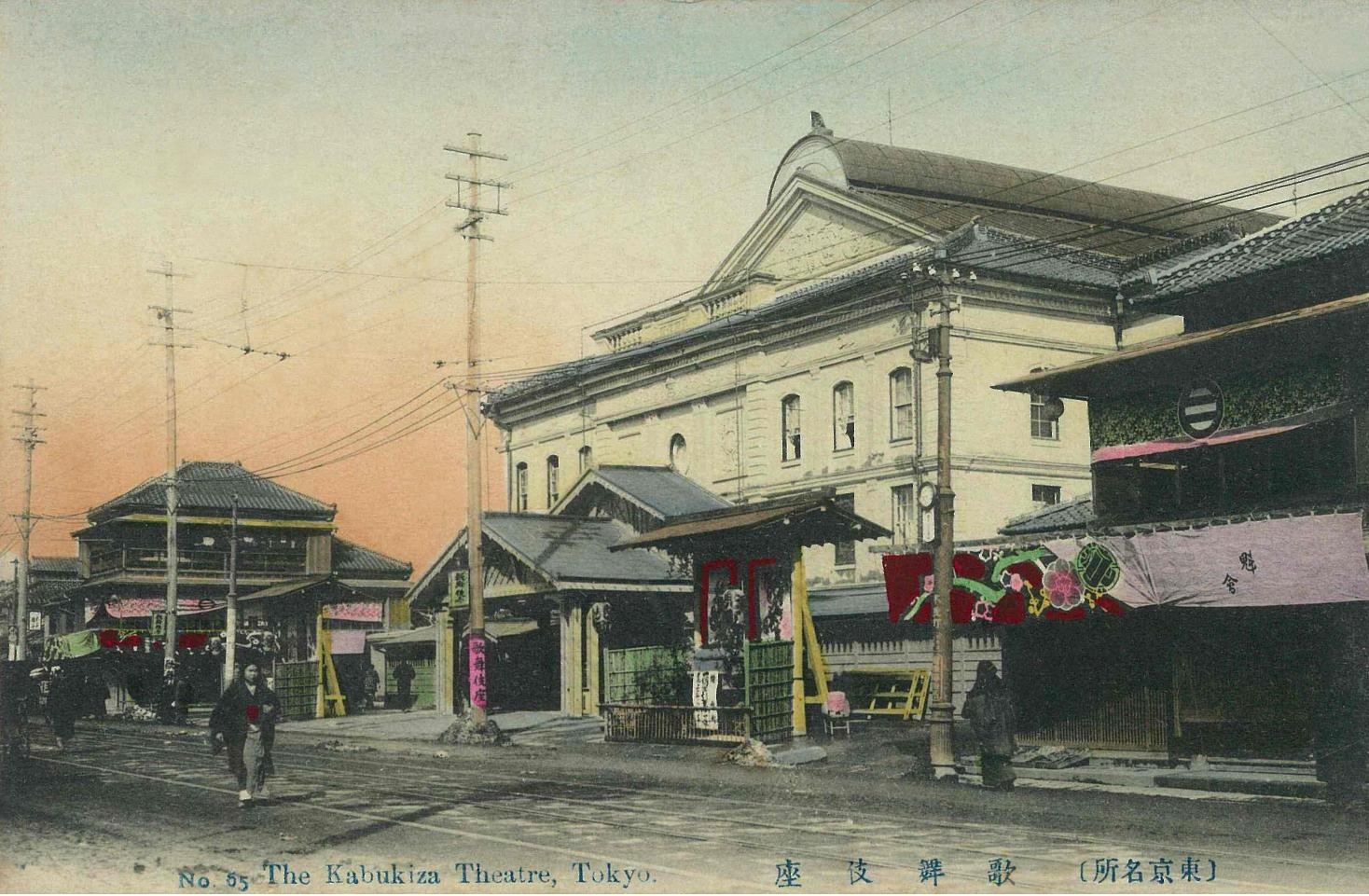 The Kabukiza Theater, Tokyo, Japan, completed by Ōkura-gumi in 1889 and repaired in 1907.